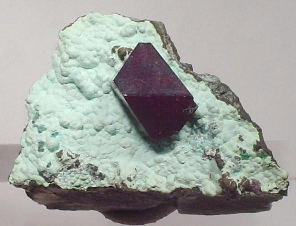 Cuprite, Plancheite Locality: Kamoto Principal Mine (Kamoto Fond Mine; Kamoto Mine), Kamoto, Kolwezi, Western area, Katanga Copper Crescent, Katanga (Shaba), Democratic Republic of Congo (Zaïre) (Locality at ) Size: 4.3 x 2.7 x 2.6 cm. A super-sharp, GEM, blood-red cuprite crystal aesthetically set on powder-blue plancheite-covered matrix on this excellent and showy specimen from the famous Kamoto Mine of Zaire. Cuprite is not well-known from the Kamoto Mine, so this is an outstanding piece for the species and locality. The 1.3 cm cuprite has textbook octahedral form and the super-trivial edge wear is barely noticeable and is certainly not a detraction to this classic material. Ex. H. Westenburger Collection.